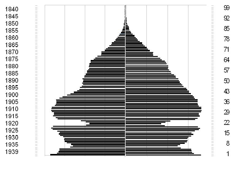 Inhabitants of germany 1939